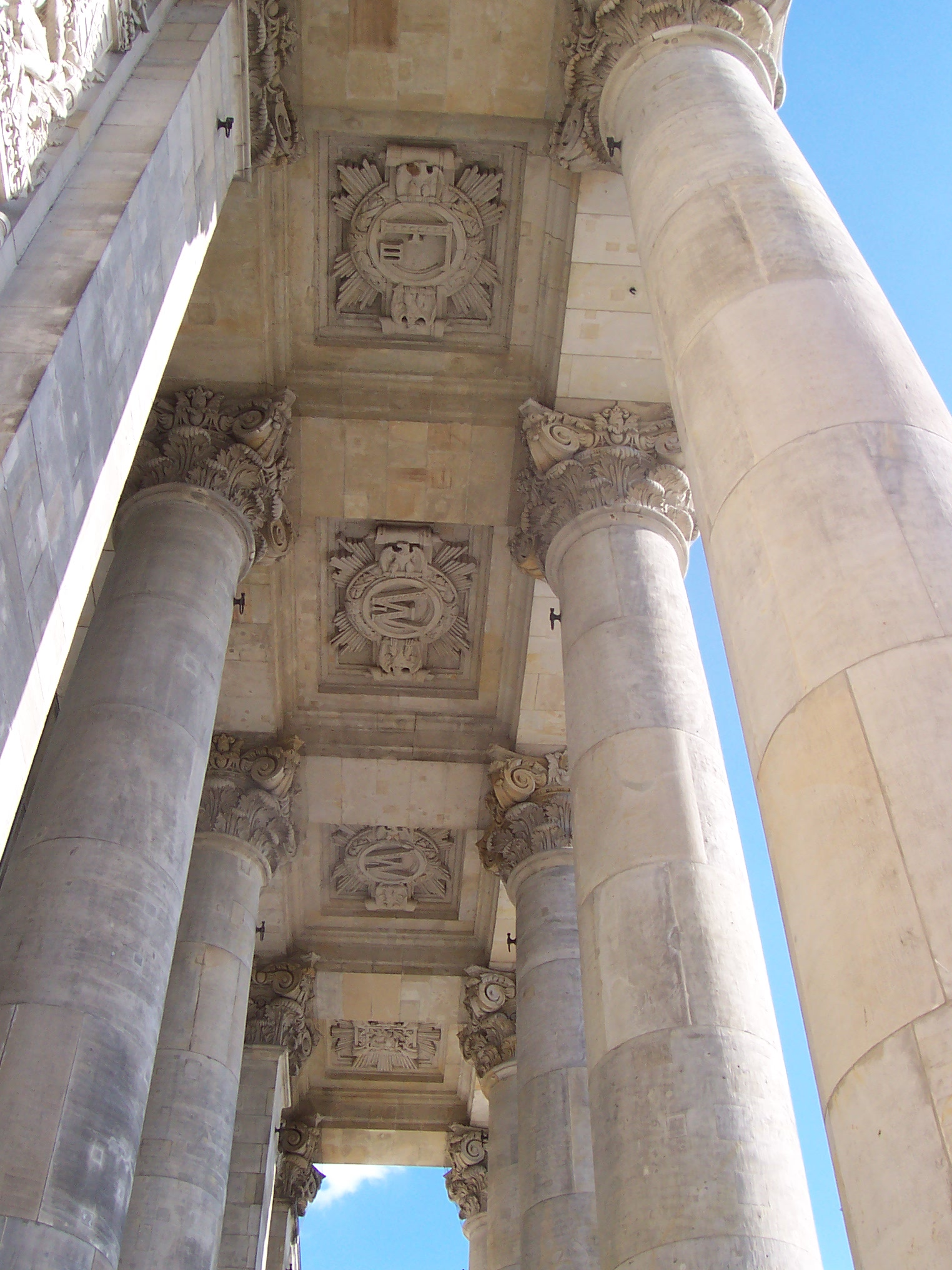 Reichstag in Berlin